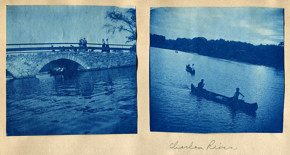 Canoeing on the Charles River Cyanotype